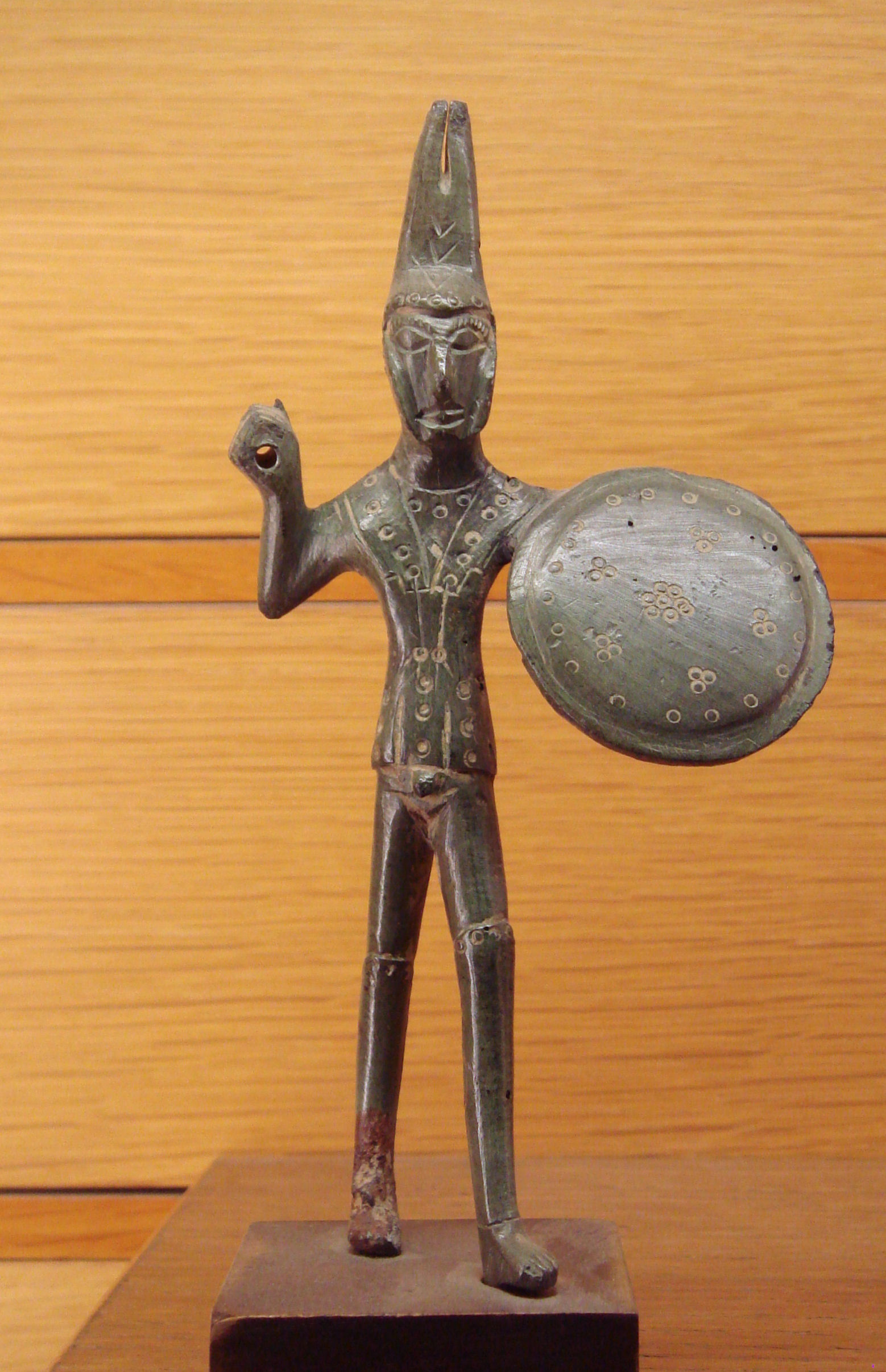 Etruscan_warrior_near_Viterbe_Italy_circa_500 BCE